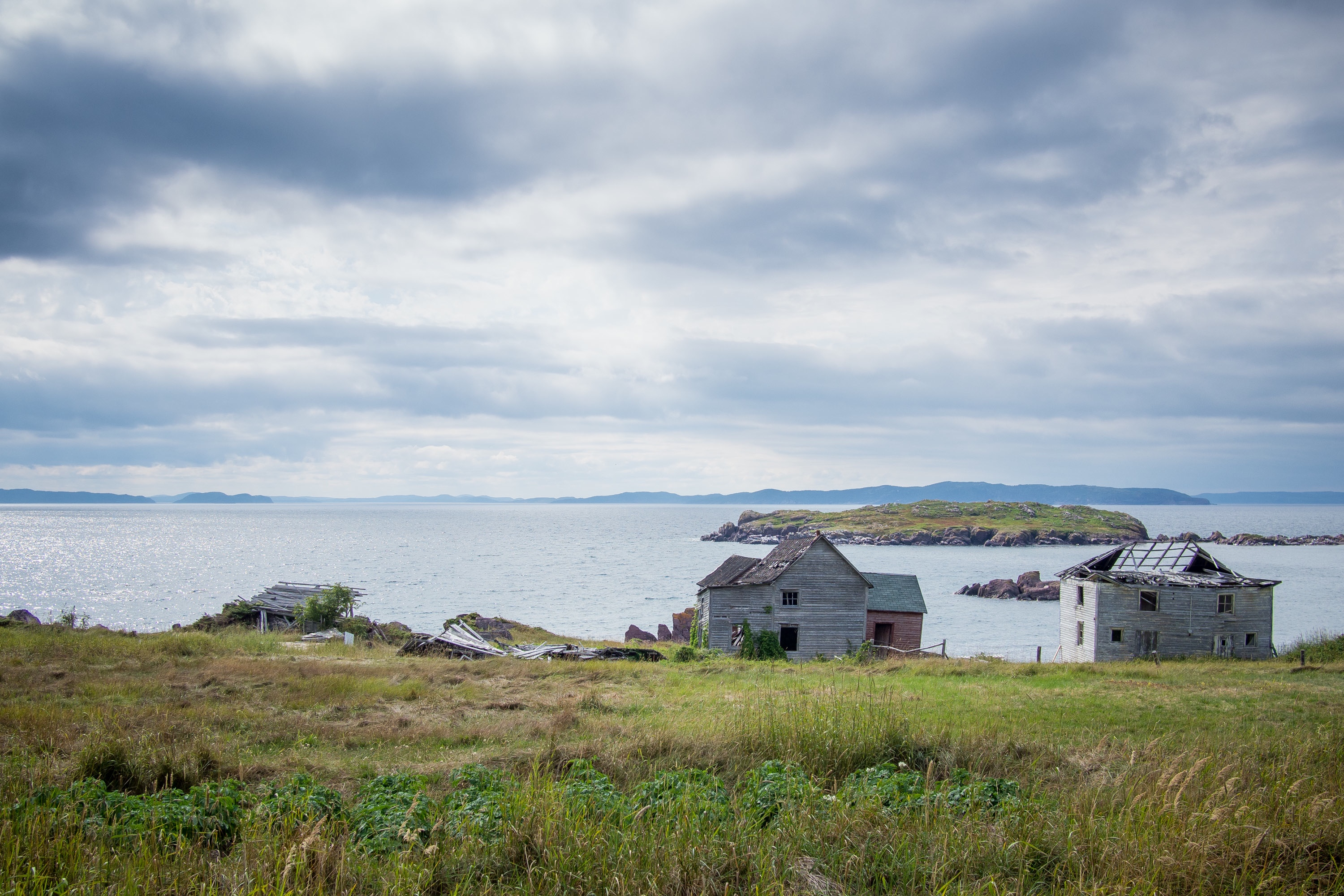 Abandoned homes near Tickle Cove. The coast of Newfoundland is home to many abandoned homes as people were forced elsewhere to find work after the Canadian government imposed a moratorium on the Northern Cod fishery.